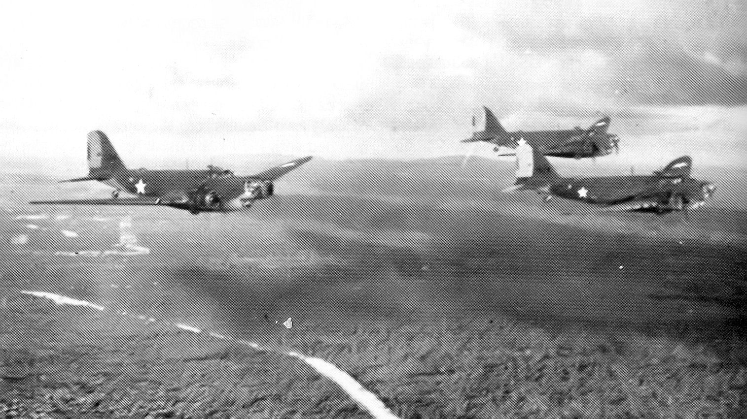 B-18 Bolos of the 12th Bombardment Squadron flying over British Guiana, 1943